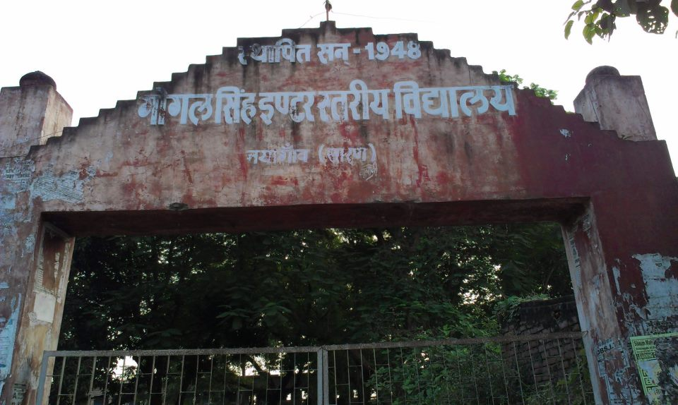 GogalSinghIntermediateHighSchoolNayagaon Saran Bihar